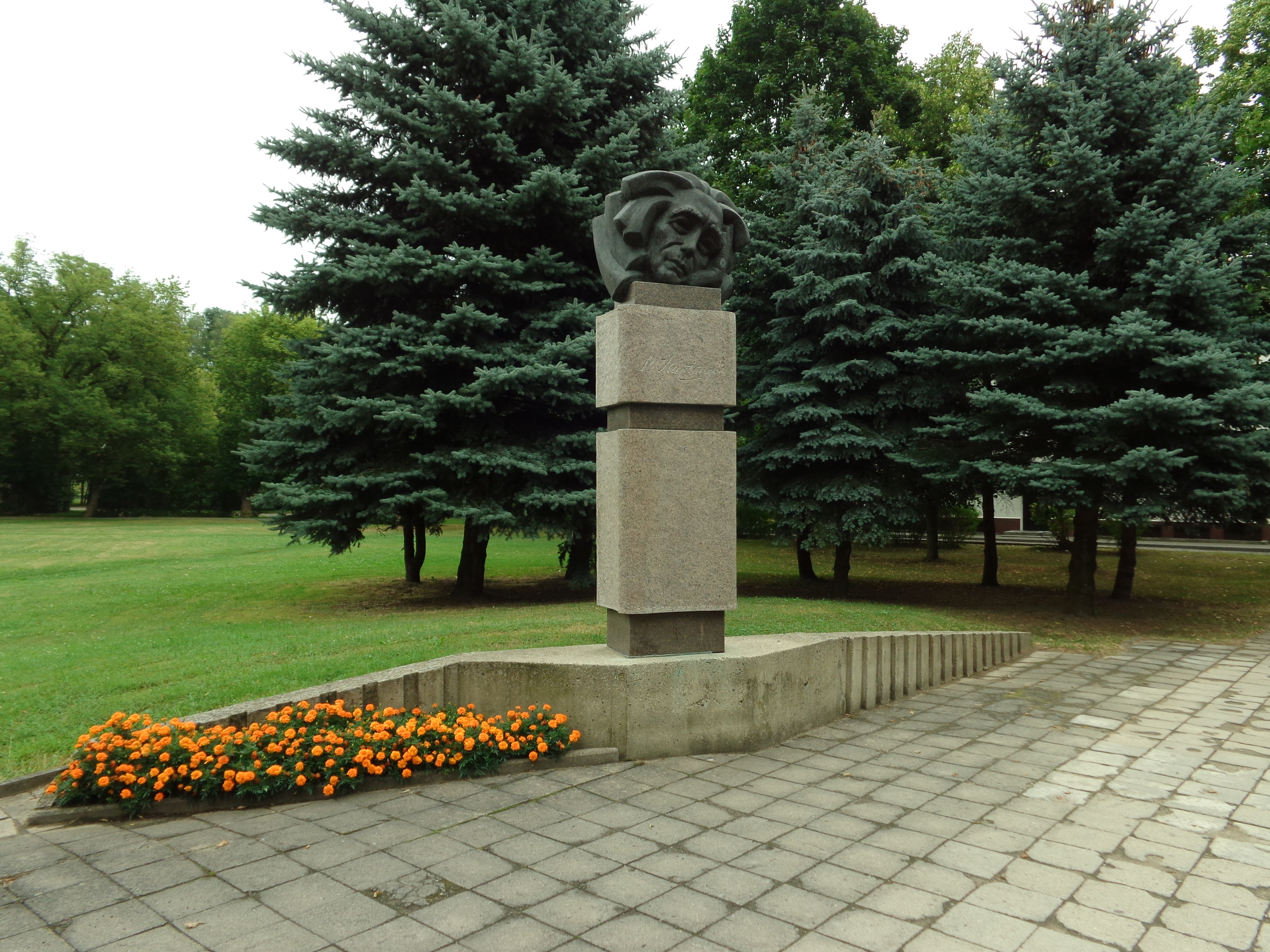 Petras Vaičiūnas' monument, 2014